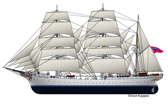 Drawing of the Norwegian sailing ship Statsraad Lehmkuhl